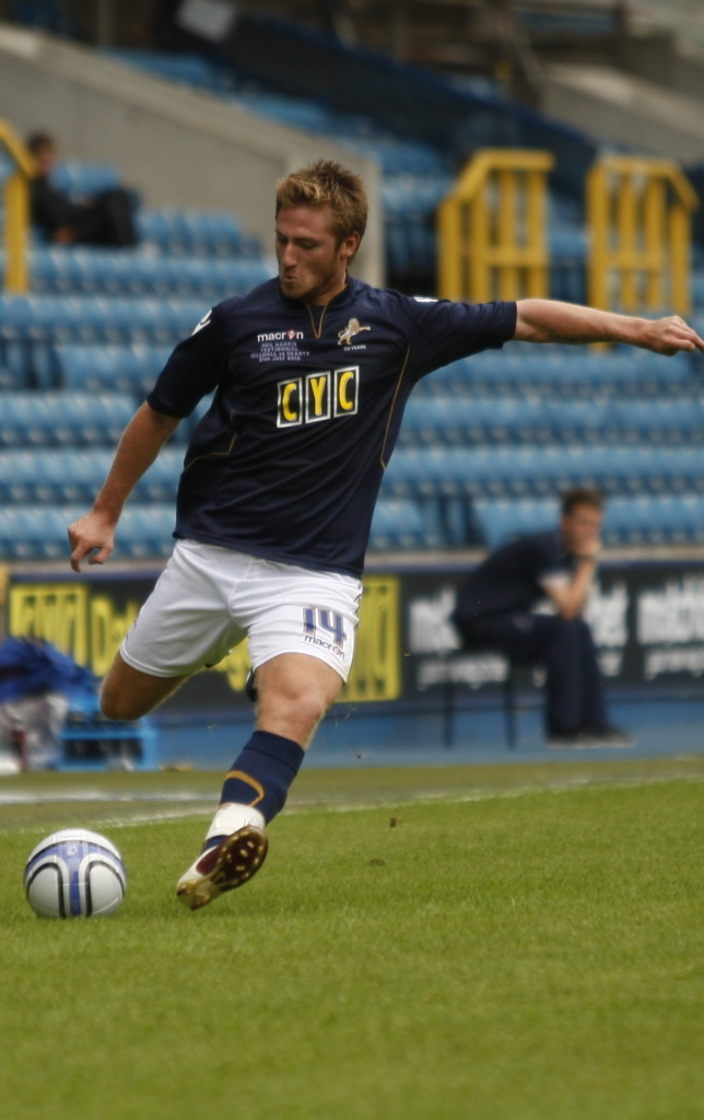 James Henry crosses the ball in the Neil Harris Testimonial against Hearts.